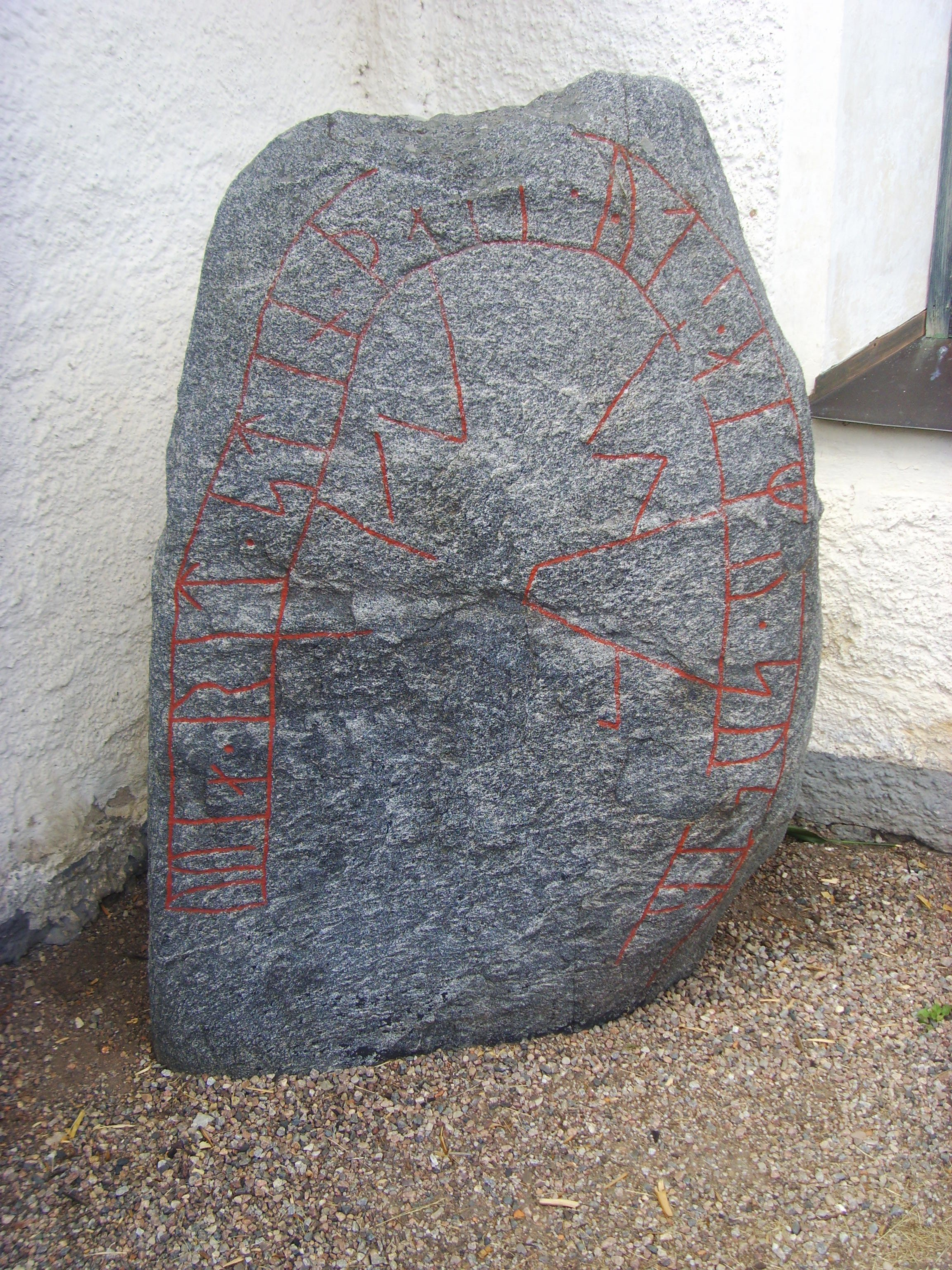 A Runestone (Ög 91) outside the church of Järstad. When the Orden of St Dominic came to Sweden 1237 they built a convention (monestery) in Skänninge and in the same time the first brickhouses in Sweden started to builts. The church in Järstad was probably the first church on the countryside with bricks, from around 1250. The summer 2008 they restored the church.